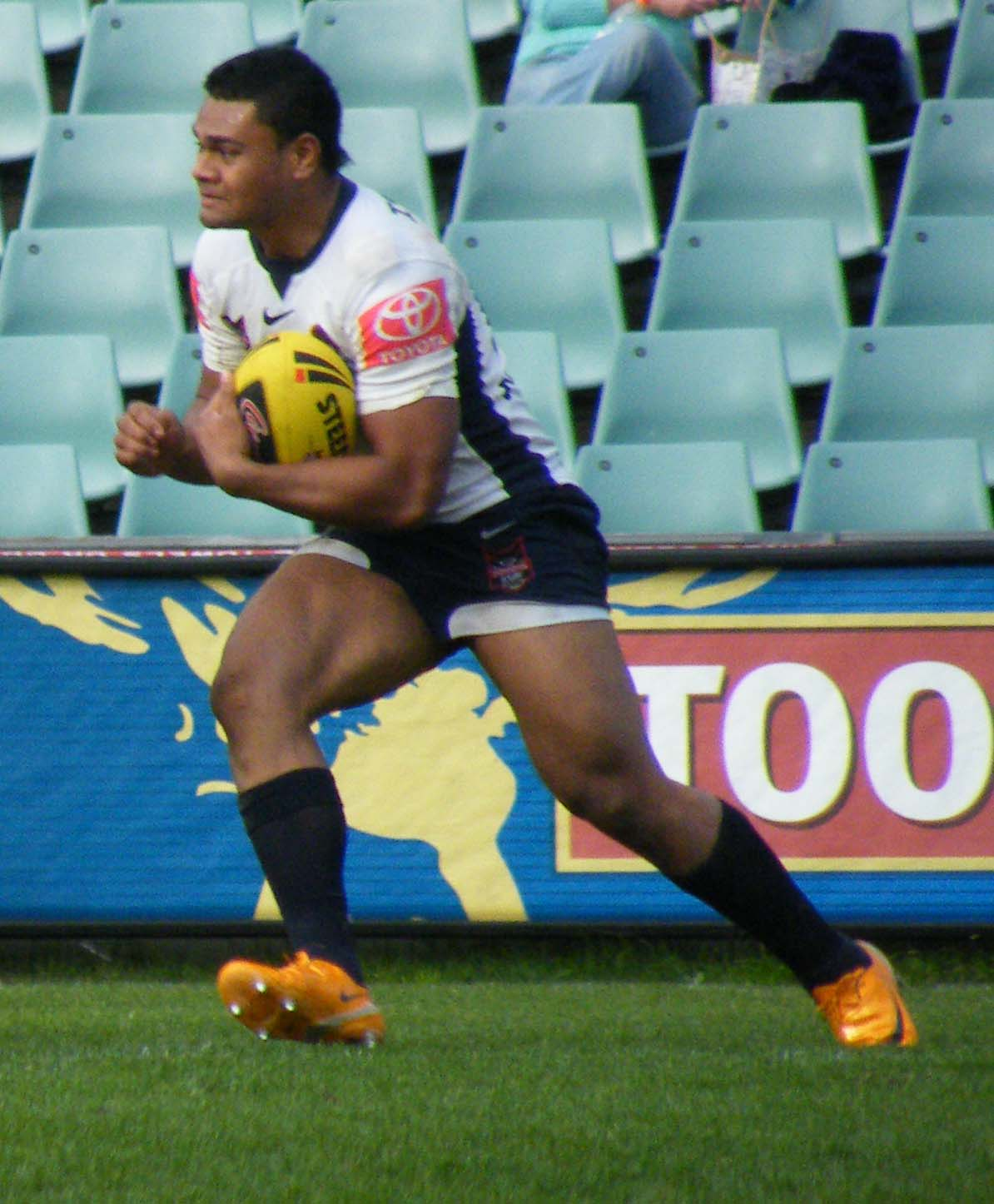 Dunamis Lui